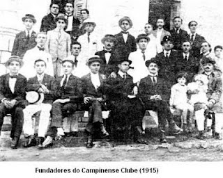 fundadores do Campinense